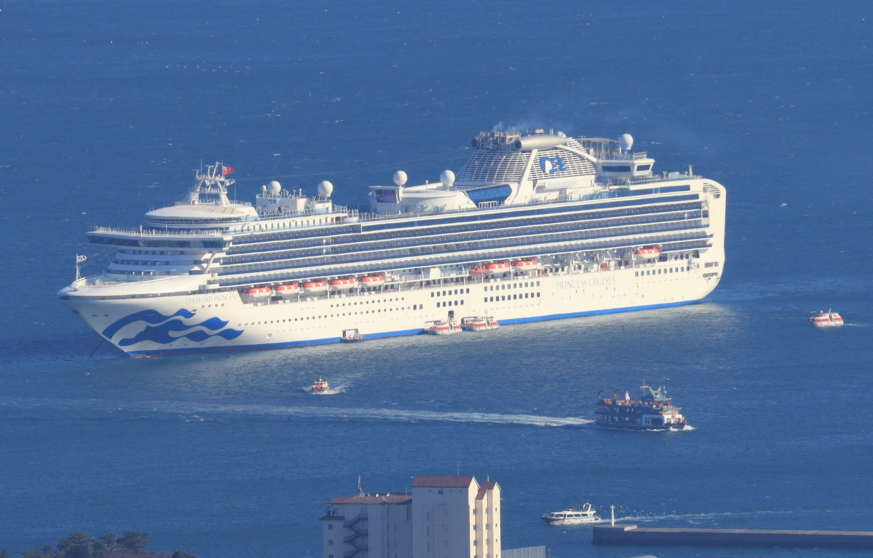 Diamond Princess seen from Mount Asama around port of Toba in Toba, Mie Prefecture, Japan.